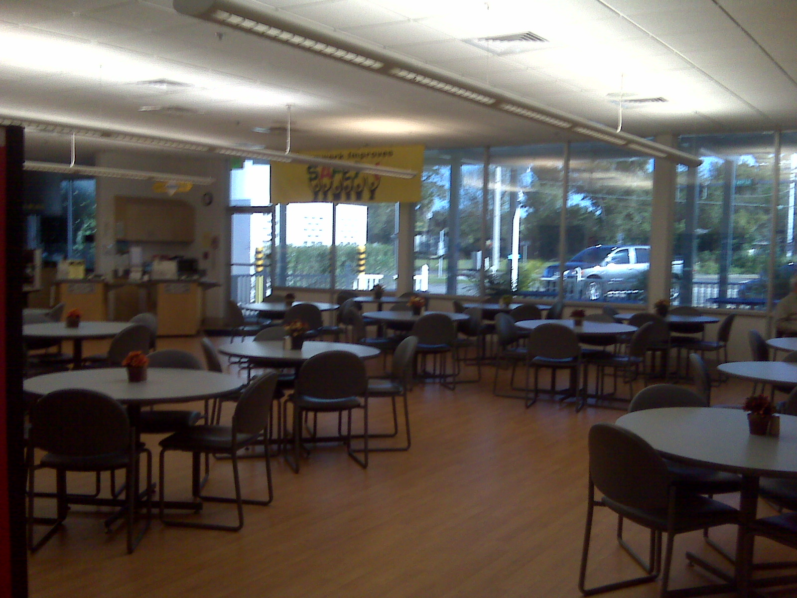 This is a picture of the "Oasis Cafe" at Charlotte Regional Medical Center in Punta Gorda, Florida (outside of normal business hours).